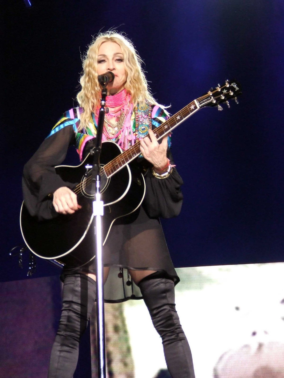 madonna concert